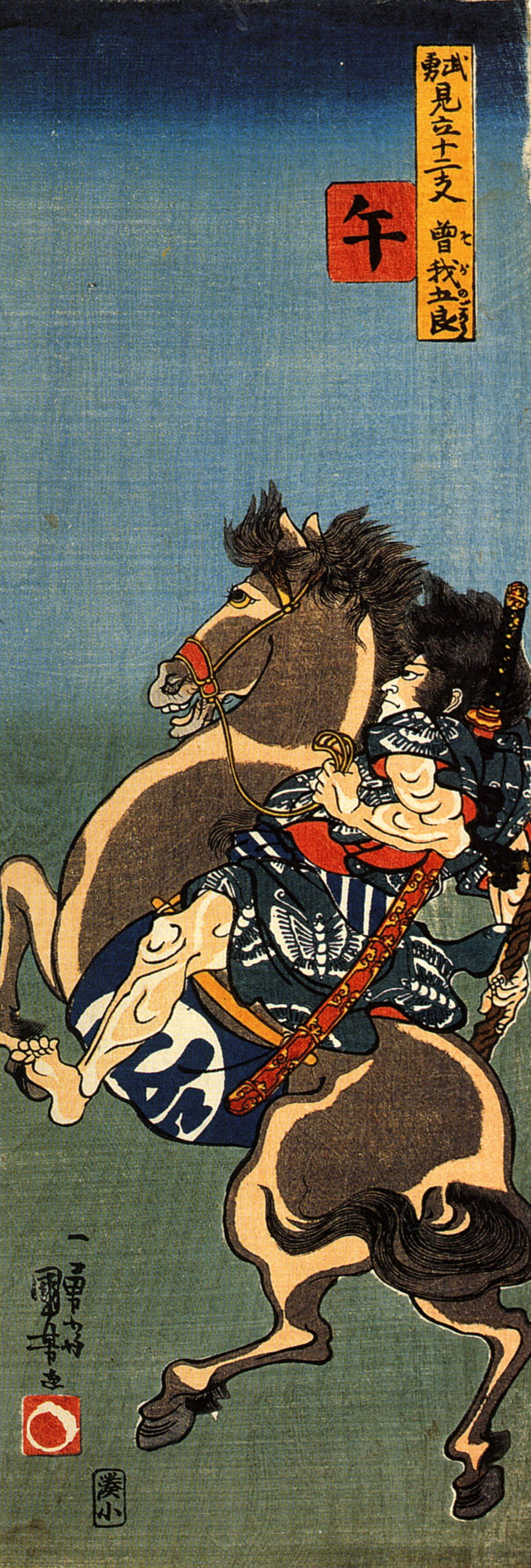 From the series "Heroes Representing the Twelve Animals of the Zodiac" (Buyû mitate jûnishi). Soga Goro gallops from Hakone to Mount Fuji, to meet his brother Soga Juro, to enact their plan to avenge their father's death